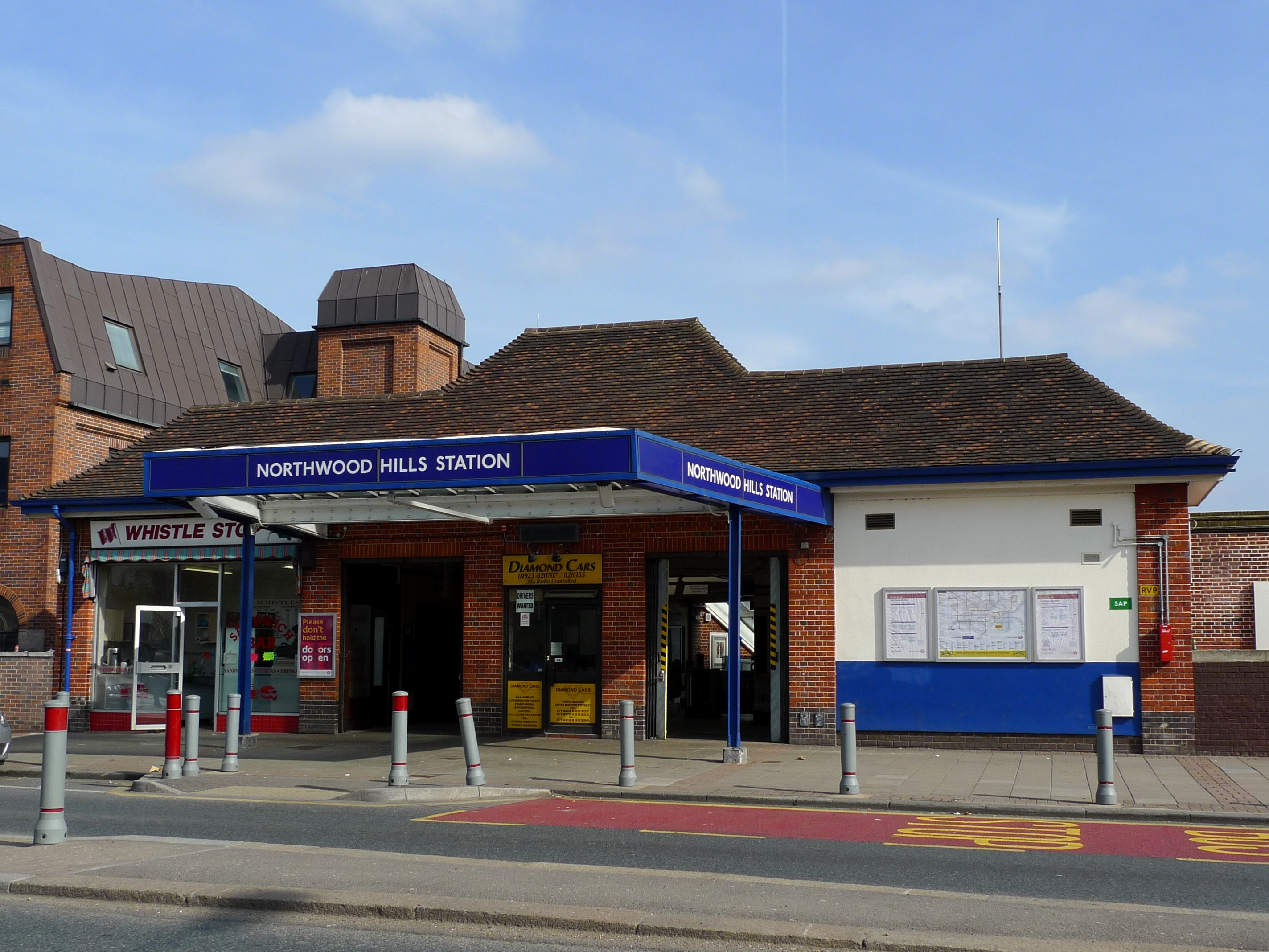 Line(s) and Previous/Next Stations: Northwood Pinner Links: Randomness Guide to London Wikipedia